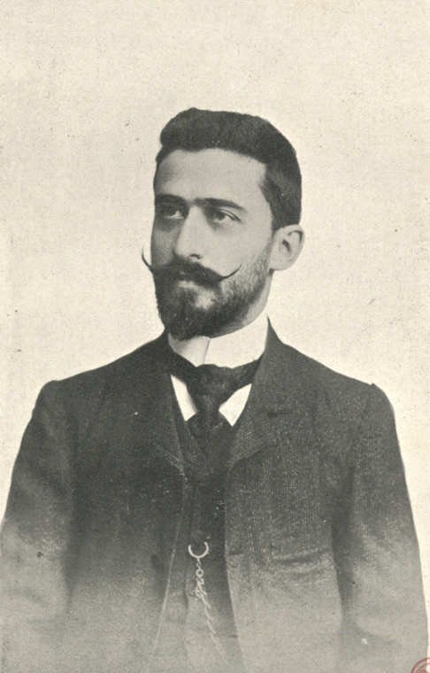 Photograph of Portuguese Republican politician José Miranda do Vale, included in the Album Republicano, published in 1908.